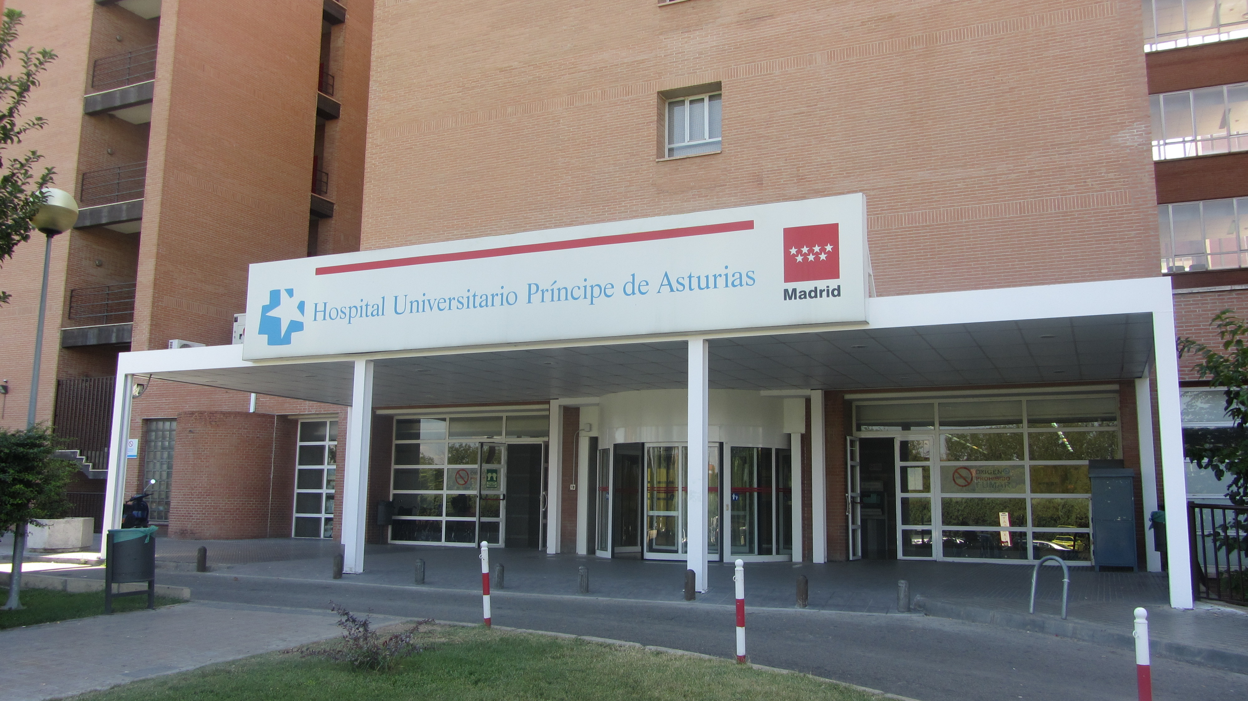 View of Príncipe de Asturias Hospital, in Alcalá de Henares (Community of Madrid - Spain).